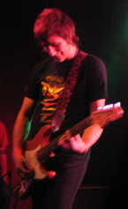 Zoomed in view of Chris Daymond. Guitarist for Jebediah. Performing at Rosemount Hotel, 2 July 2005.